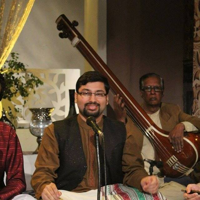 Photo of Mohammad Aizaz Sohail while performing at PTV Home's program 'Firdous-e-Gosh'